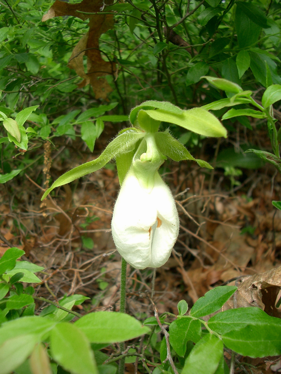 Cypripedium acaule var. alba in Bolton, Massachusetts, USA.